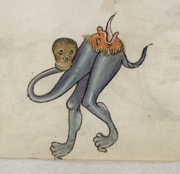 Marginal decoration from the Luttrell Psalter (Add MS 42130) f. 27r. Detail